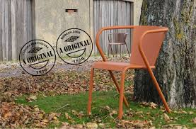 Cadeira Portuguesa